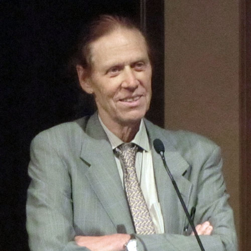 Jeremy Jackson gave a presentation titled "Brave New Ocean" at the National Museum of Natural History in Washington, DC on 6 June 2010.